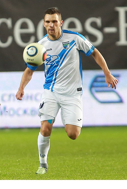 Maksim Andreyev playing for FC Sibir Novosibirsk against FC Dynamo Moscow.